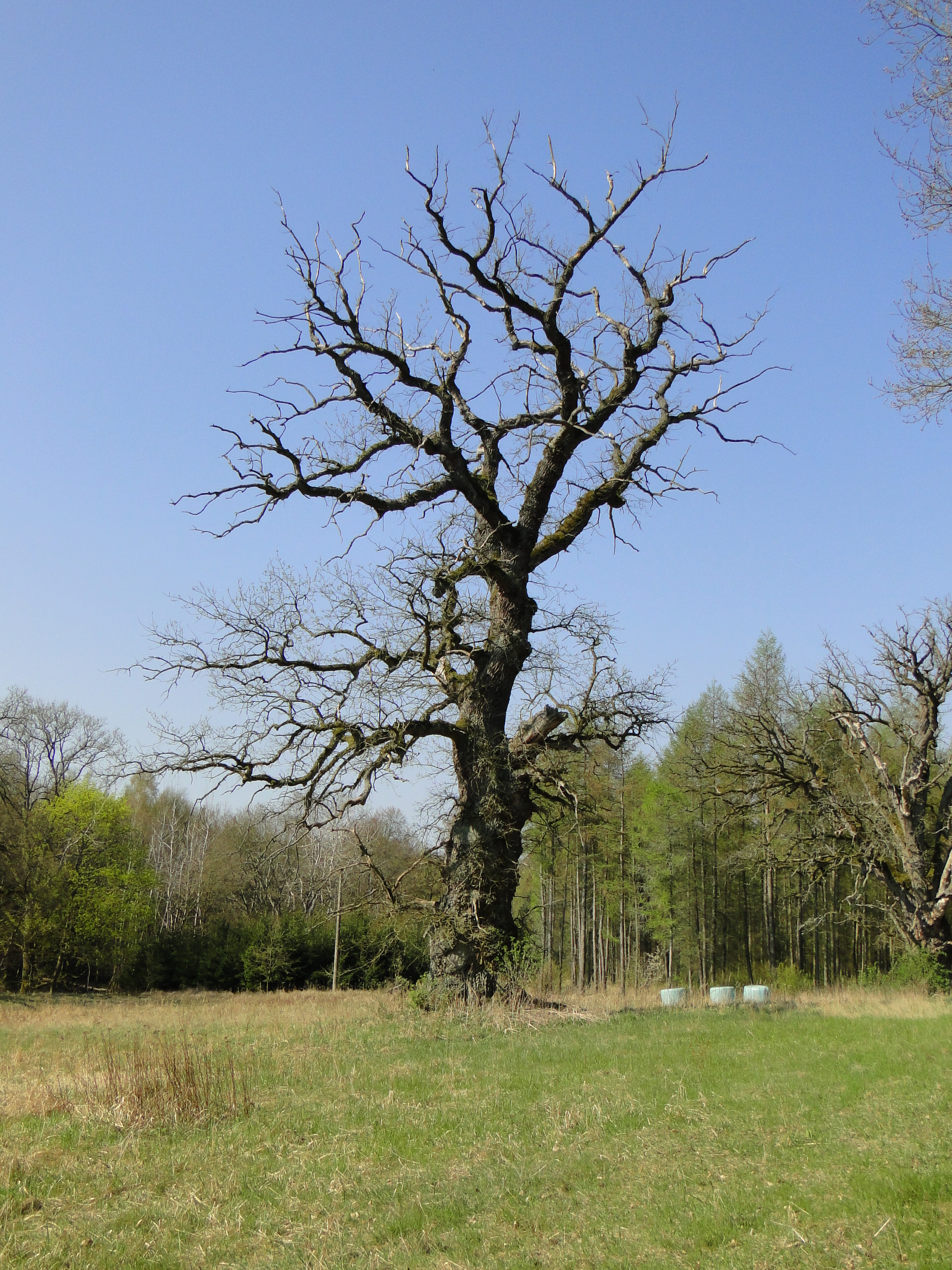 Oaks (Natural monuments) in Kläden, district Parchim, Mecklenburg-Vorpommern, Germany